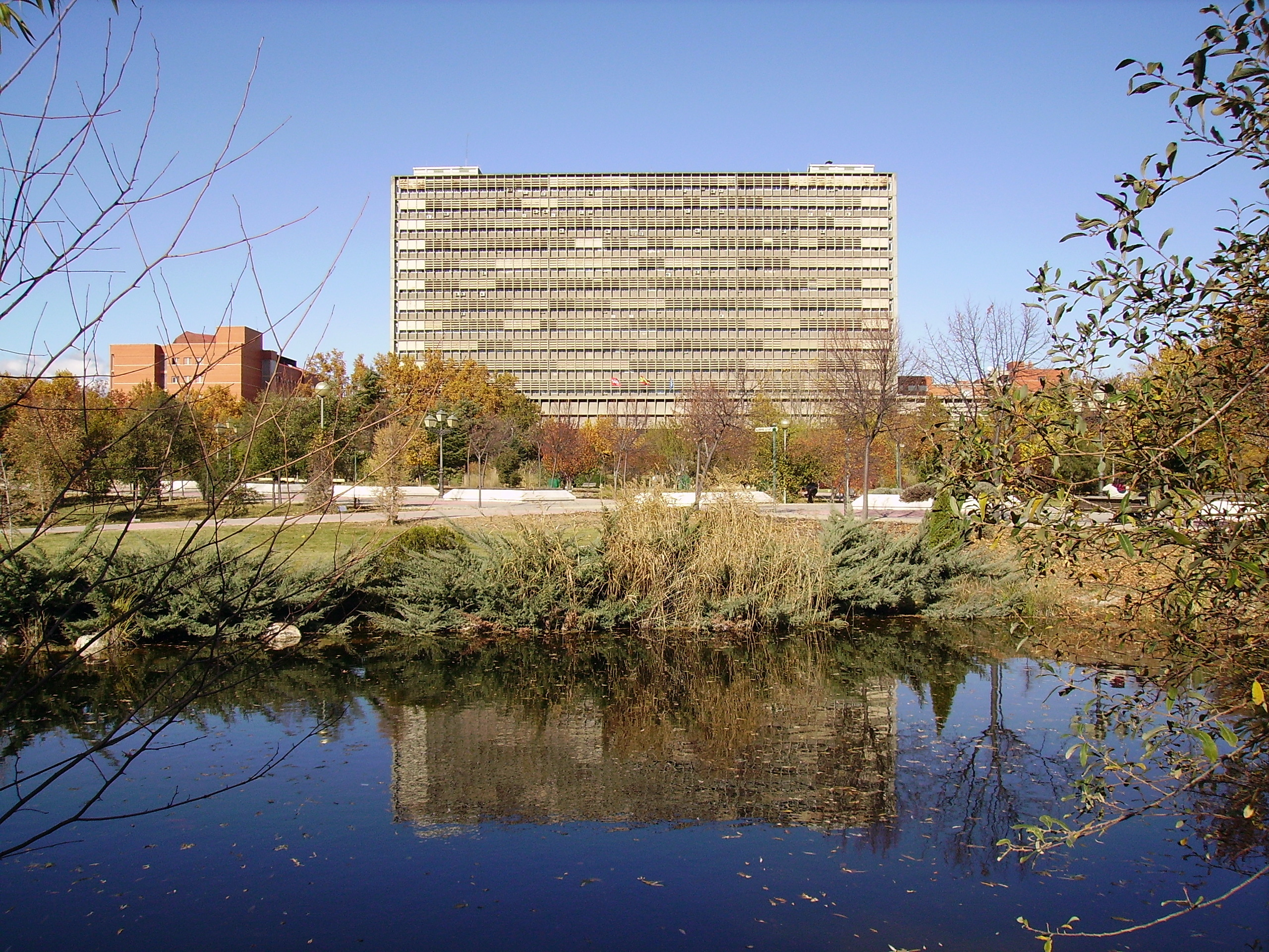 Cdad. Universitaria, Madrid, Spain